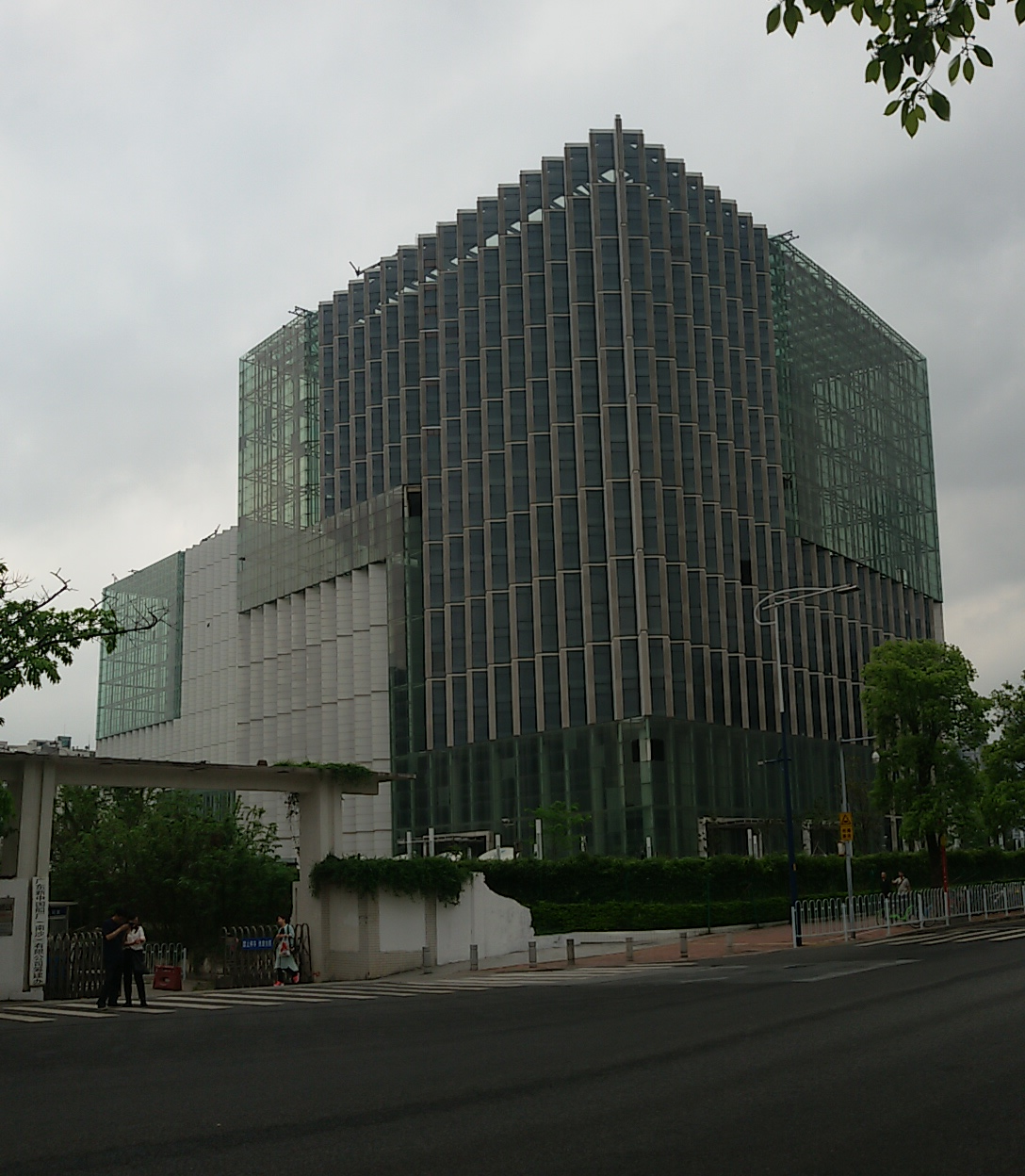 Guangzhou International Media Arbour 粵語: 廣州國際媒體港